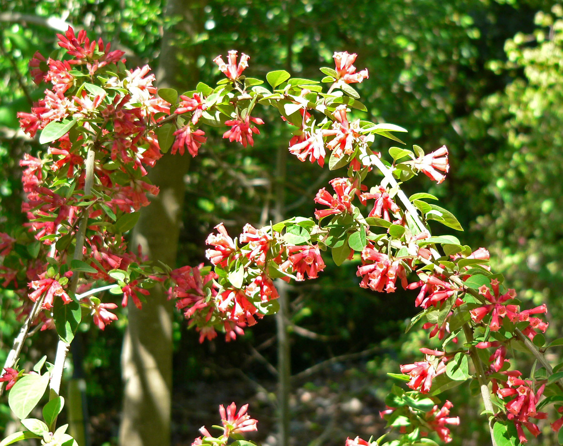 Cestrum fasciculatum at the University of California Botanical Garden, Berkeley, California